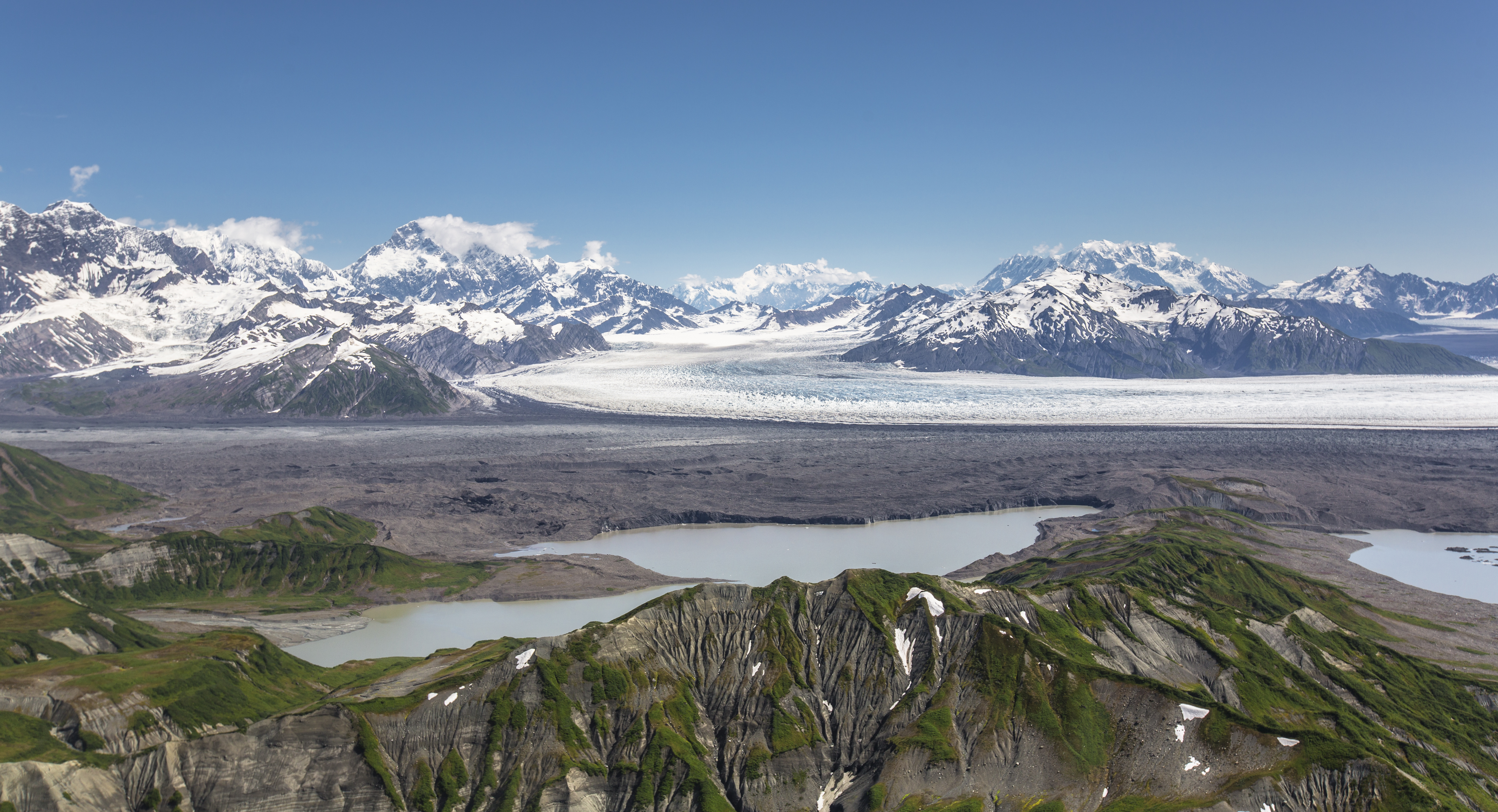 NPS / Jacob W. Frank Flight paths